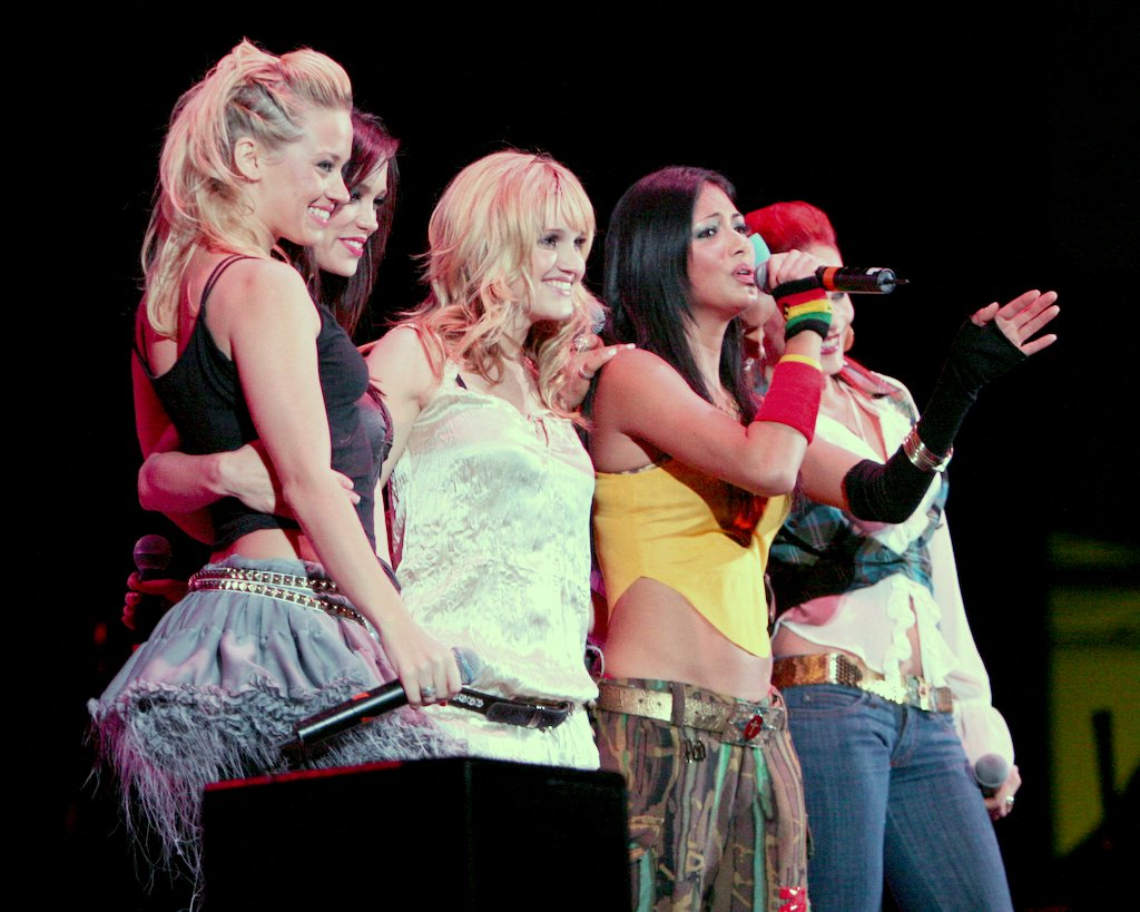 The Pussycat Dolls at the KISS 106.1 Jingle Bell Bash 8.